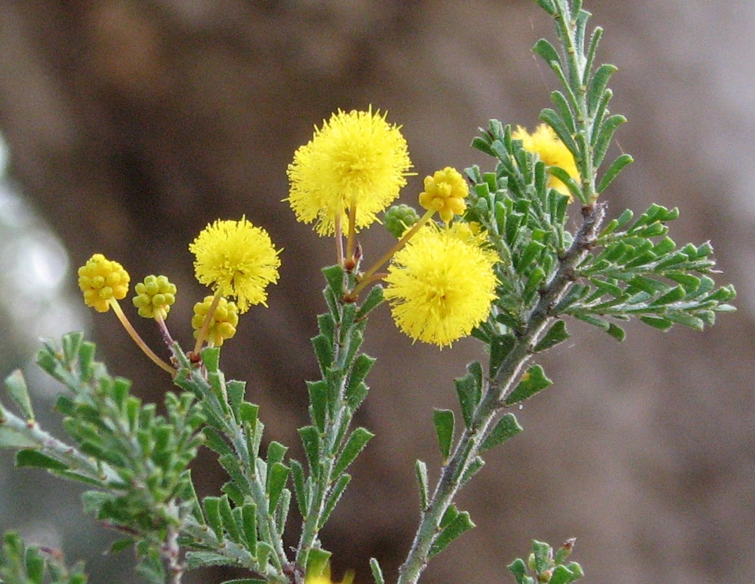 Acacia acanthoclada (cultivated, labelled) Maranoa Gardens, Balwyn, Victoria, Australia